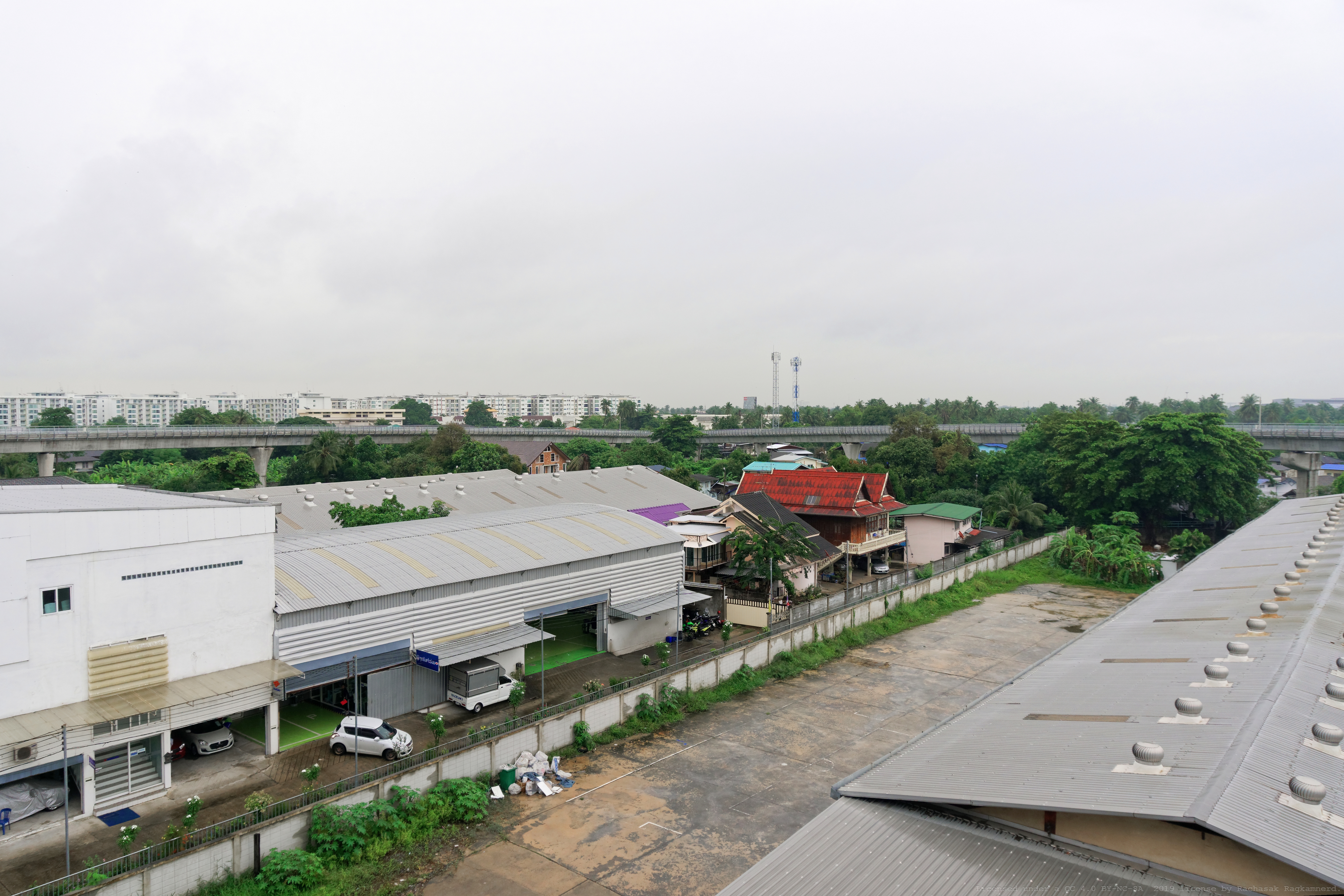 MRT Phetkasem 48 station - railways to the line's depot. Left: From Ta Phra station. Right: From Phasi Charoen station. Middle (behind trees): The line's depot.